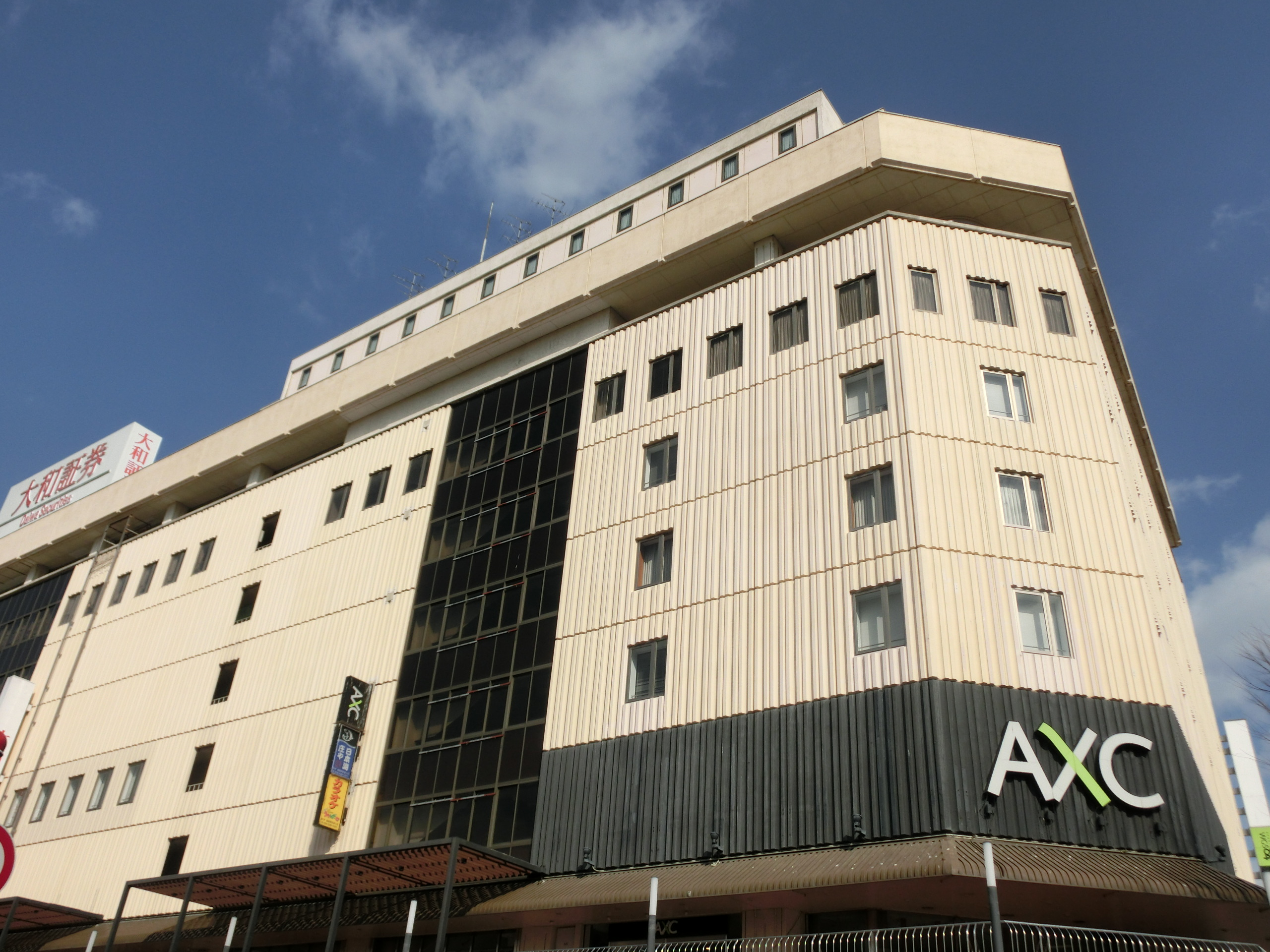 AXC building